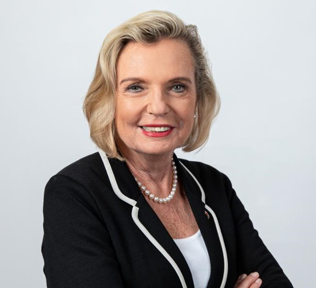 Anna Maria Anders, Polish politician, ambassador to Italy